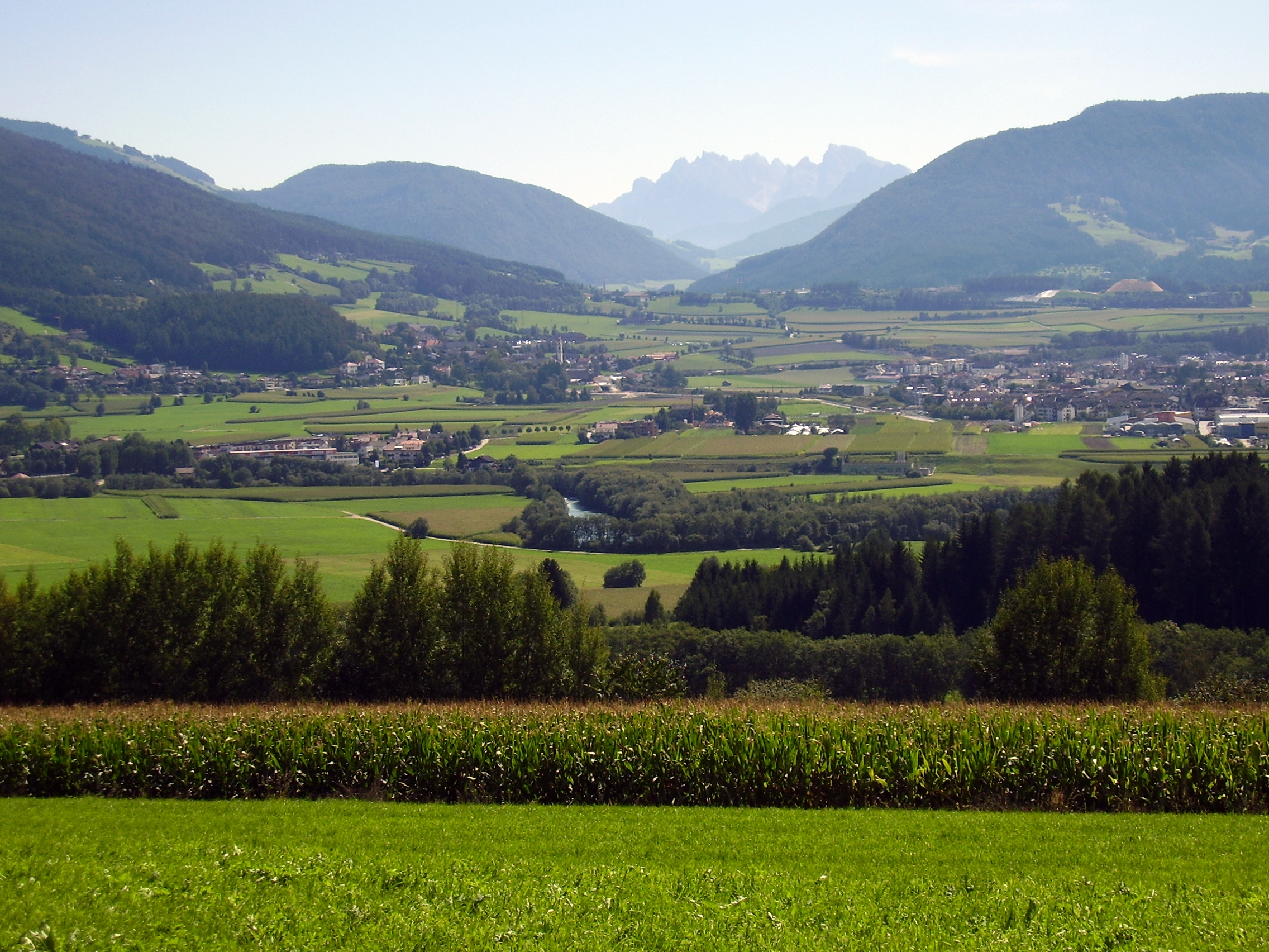 View eastwards of the Pustertal from St. Georgen (Bruneck) with the Pragser Dolomites